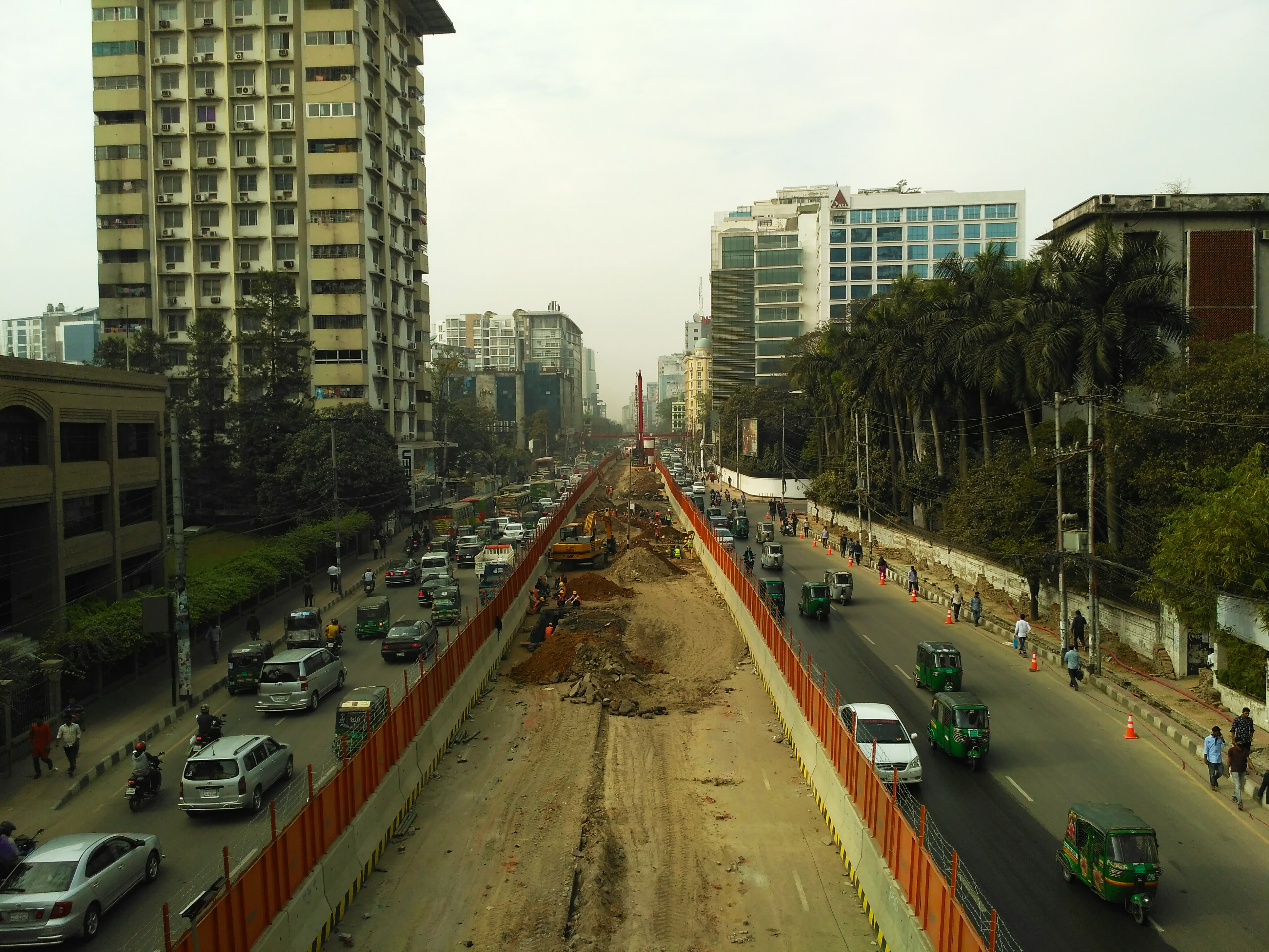 Construction started for Dhaka Mass Rapid Transit Development Project, Contract-CP-06, at Kazi Nazrul Islam Ave Road, Dhaka. Photo shooted from Poribagh footover Bridge. From south to north side. ( 16.02.2019.)